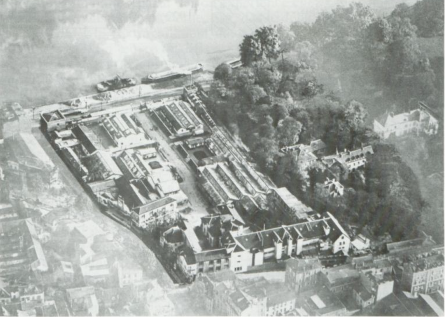 Aerial view of Coty plant - Suresnes, circa 1930